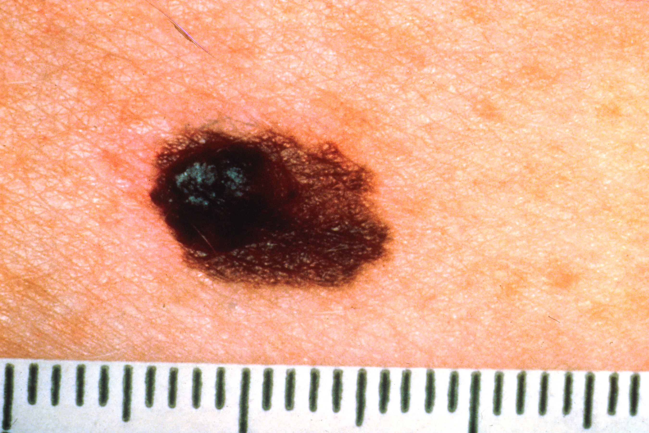 Title Asymmetrical Melanoma Description Seen is asymmetrical melanoma, the left side of the lesion is much thicker than the right side. Part of the ABCDs for detection of melanoma. For additional resource, see the following web site: Topics/Categories Anatomy -- Skin Cancer Types -- Melanoma Cancer Types -- Skin Cancer Cells or Tissue -- Abnormal Cells or Tissue Type Color, Photo Source Skin Cancer Foundation